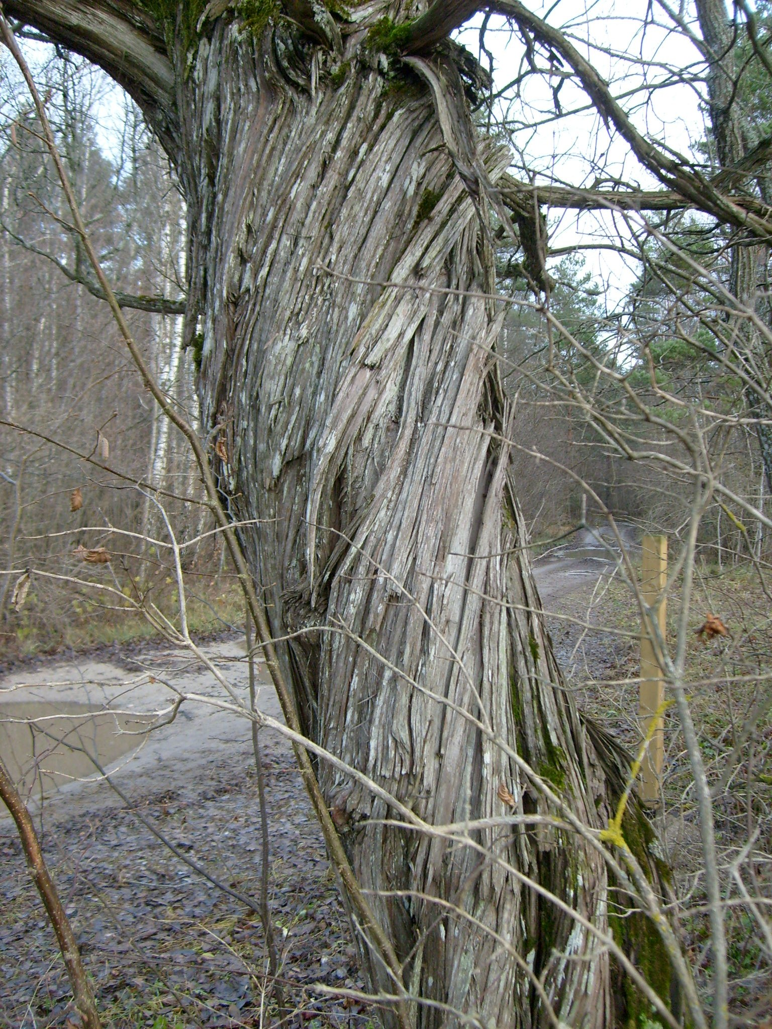 Stem of common juniper (Juniperus communis), Estonia, western part of the town Keila. Loigu keerdkadakas Keila lääneosas.